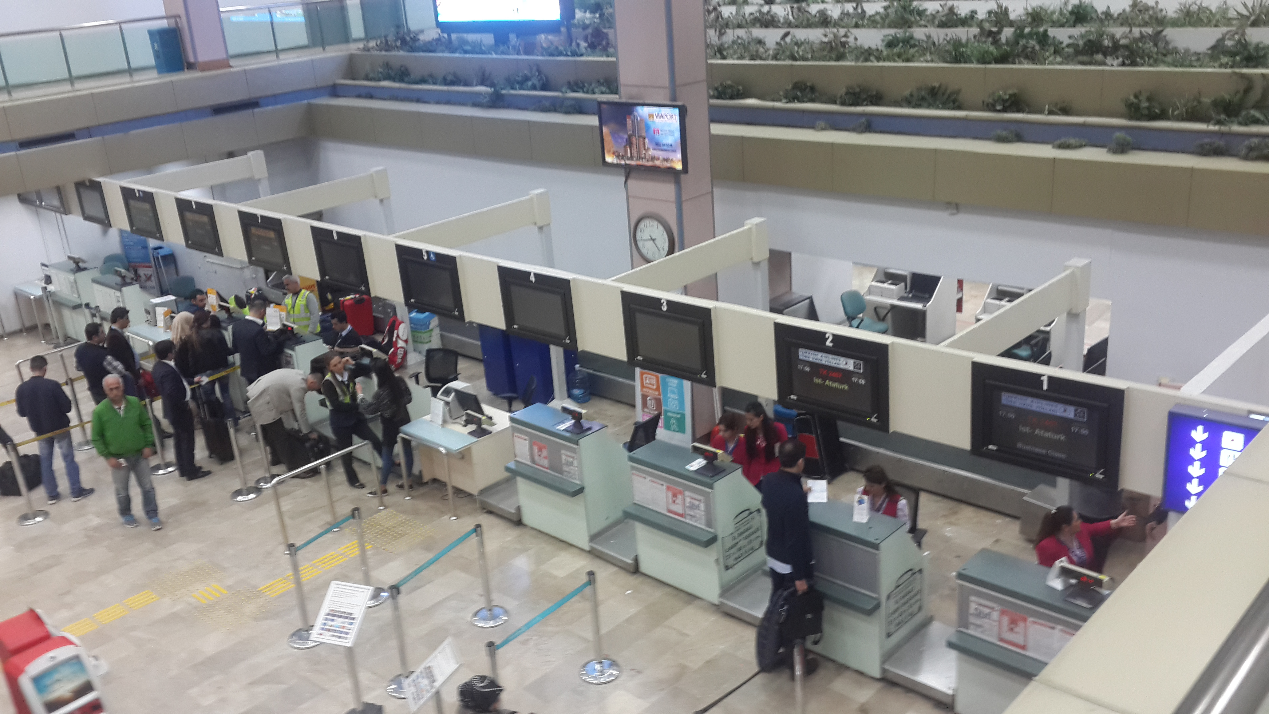 Check-in counters